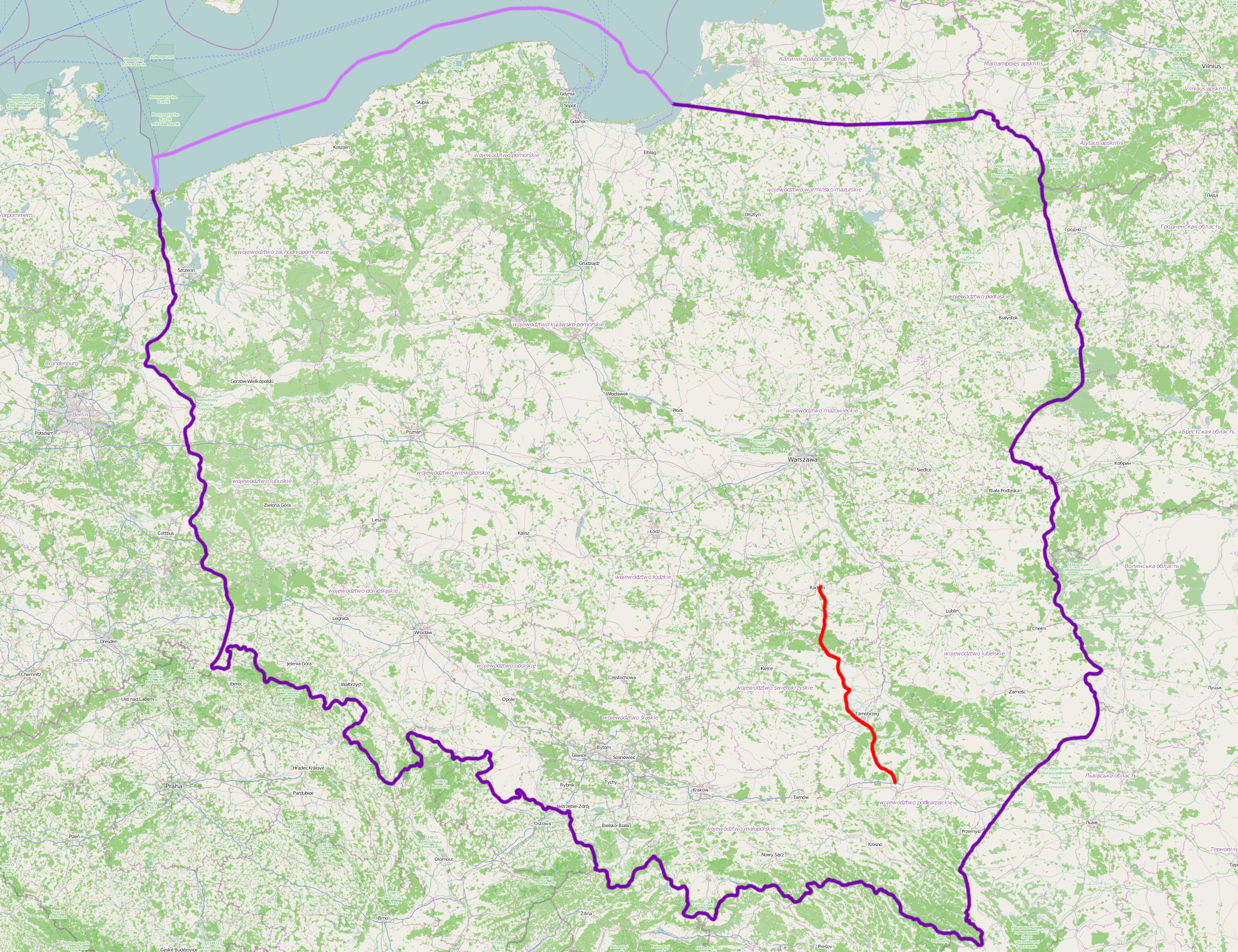 Map of route of Polish national road 9, the only single-numbered national road without any plans for constructing an expressway or motorway. Background from OpenStreetMap. National road 9